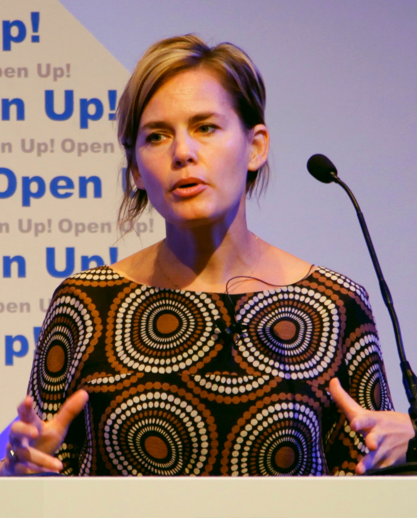 Jennifer Pahlka, founder and executive director of Code for America, speaking at the DFID/Omidyar Network Open Up! conference. Code for America works with talented web professionals and cities across the USA to promote public service and reboot government. In 2011, Government Technology named her one of the year's Doers, Dreamers and Drivers in public sector innovation.The Huffington Post named her the top Game Changer in Business and Technology the same year. Terms of use This image is posted under a Creative Commons - Attribution Licence , in accordance with the Open Government Licence . You are free to embed, download or otherwise re-use it, as long as you credit the source as 'Russell Watkins/DFID'.